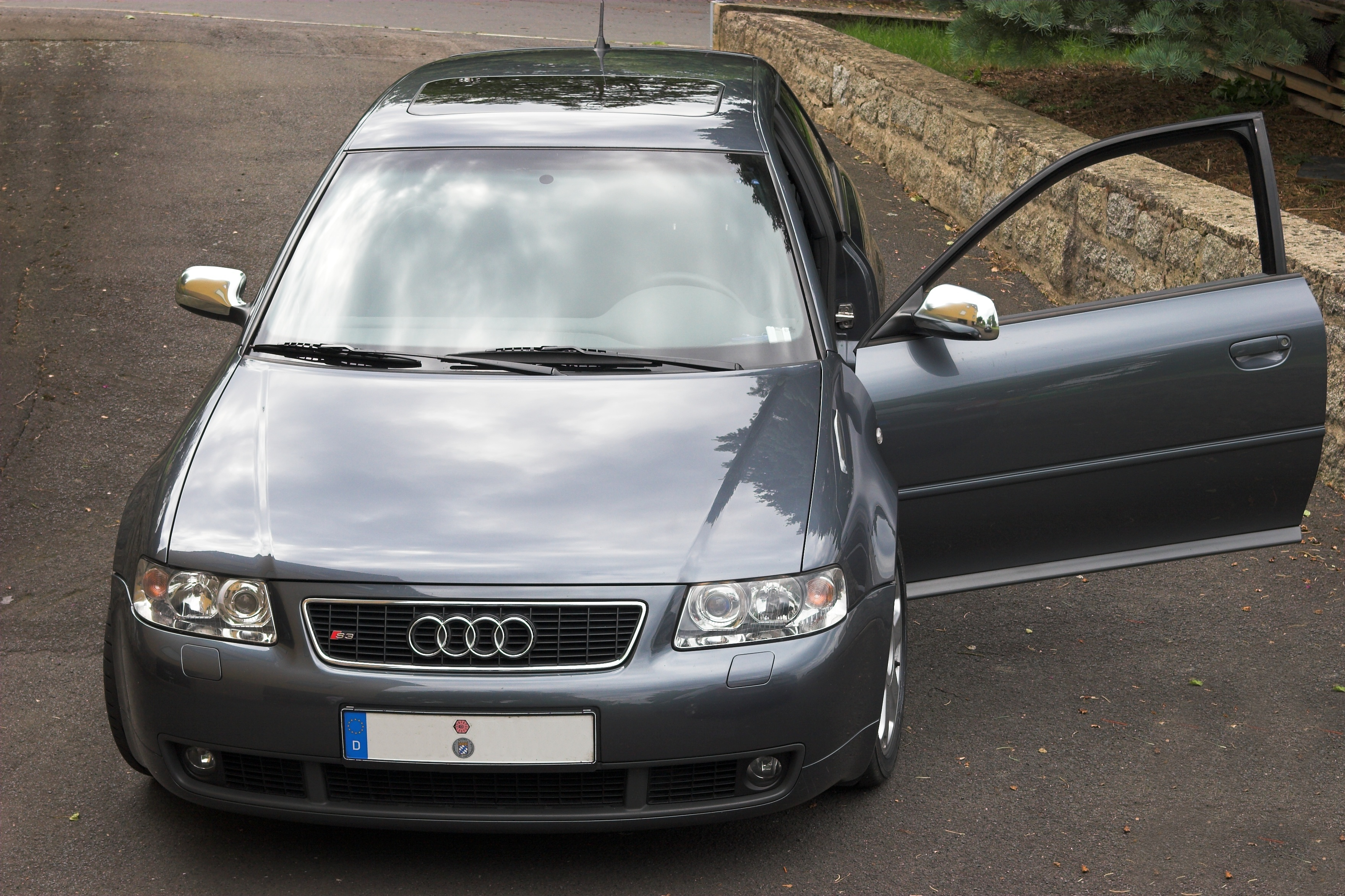 2003 Audi S3, type 8L, dolphin gray